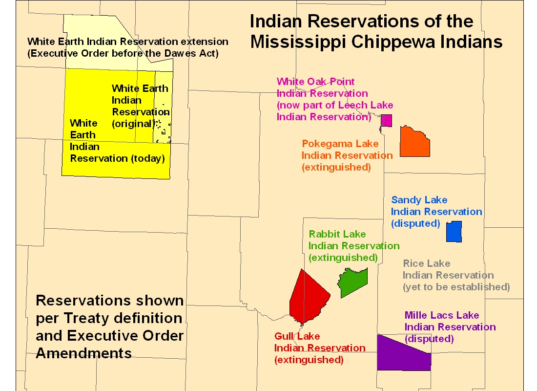 Indian Reservations of the Mississippi Chippewa. Shown are the 1855 Treaty-established Indian Reservations at Gull Lake (extinguished), Rabbit Lake (extinguished), Pokegama Lake (extinguished), Mille Lacs Lake (disputed), Sandy Lake (disputed) and Rice Lake (yet to be established). Also shown are the White Oak Point Indian Reservation (now part of Leech Lake Indian Reservation), 1868 Treaty-established White Earth Indian Reservation, its expansion by Executive Order, and its reduction (today's boundaries) by Executive Order.